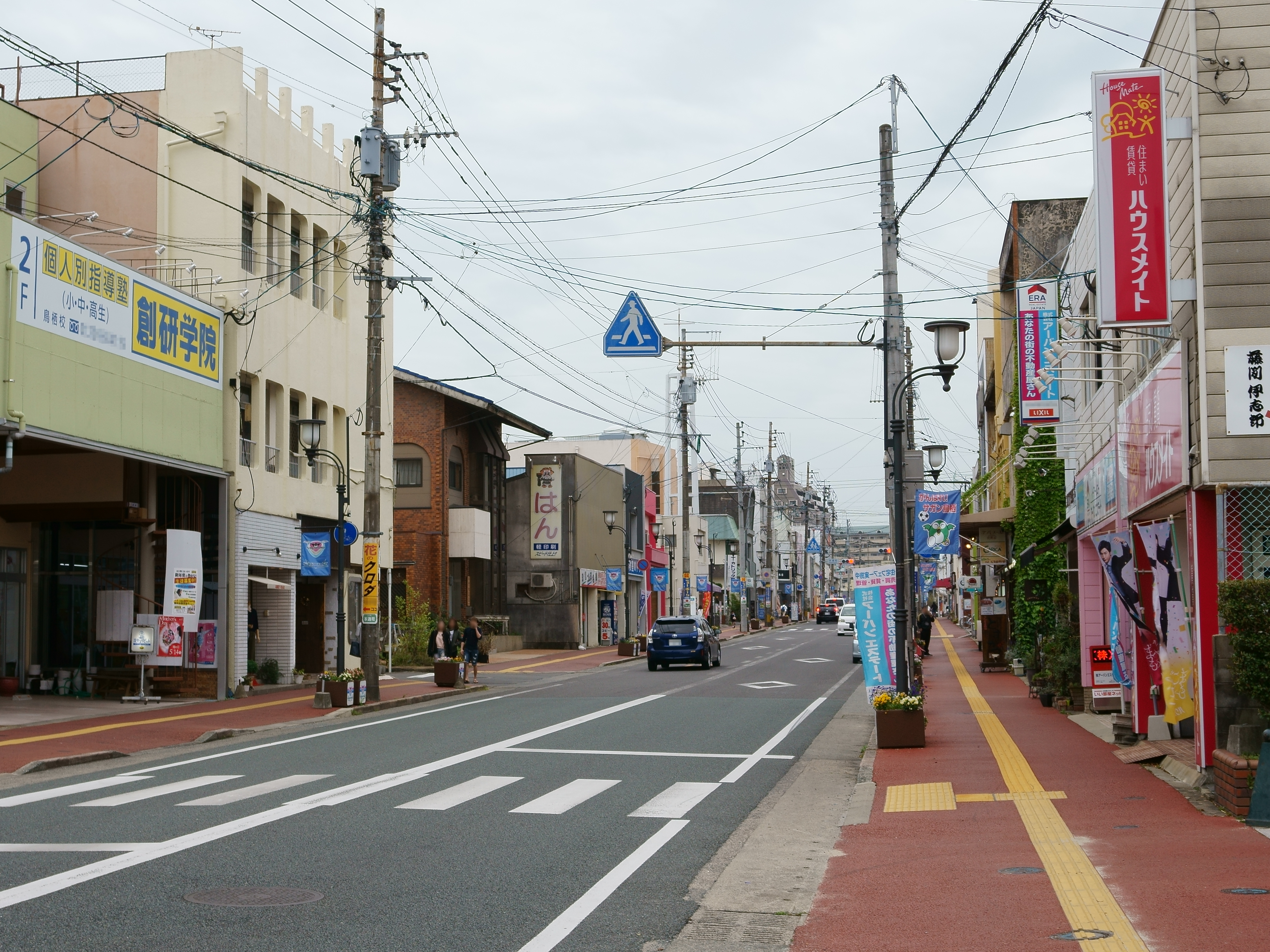 Hondori-suji Shopping street in Tosu city, Saga prefecture.